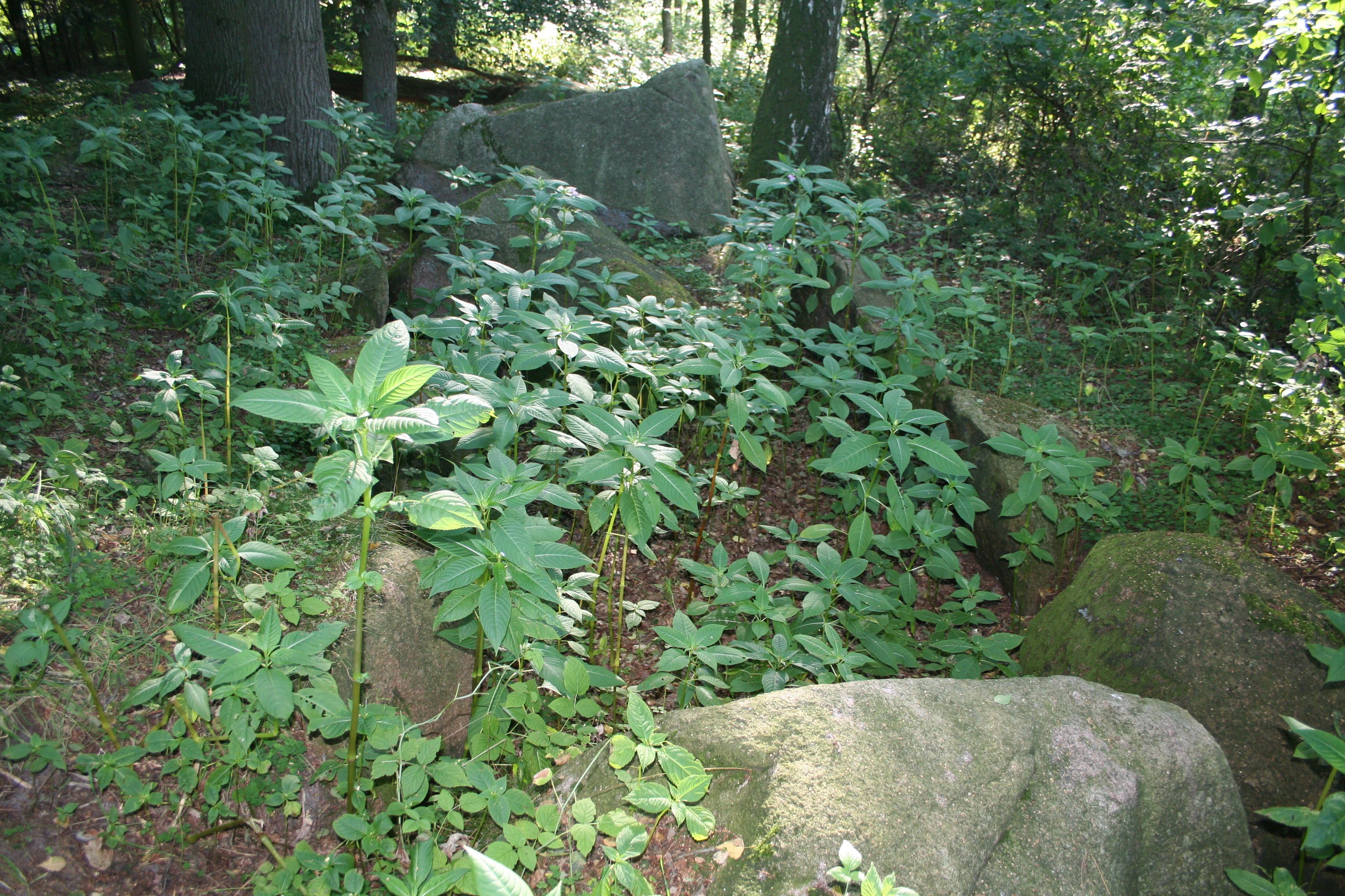 Megalithic tomb Holzhausener Kellersteine 1